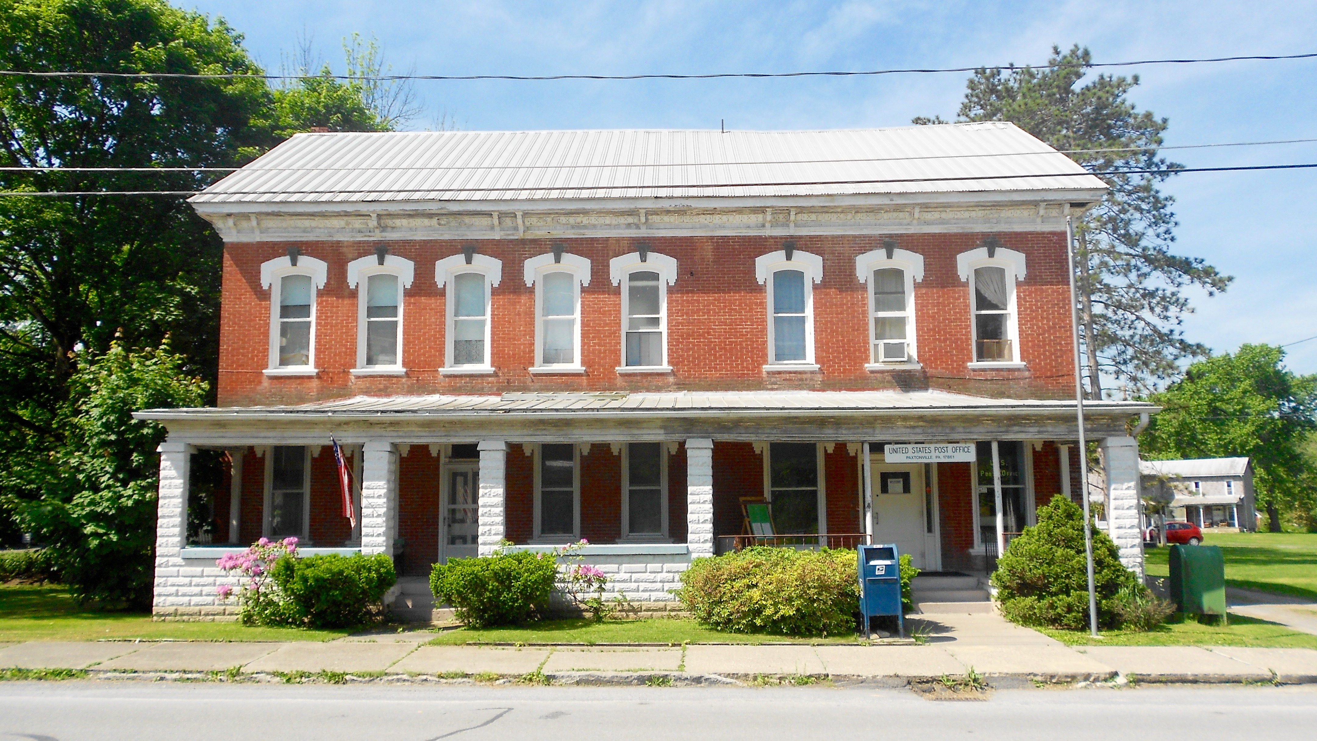 United States Post Office in Paxtonville, Franklin Township, Snyder County, pennsylvania. Zip code 17861